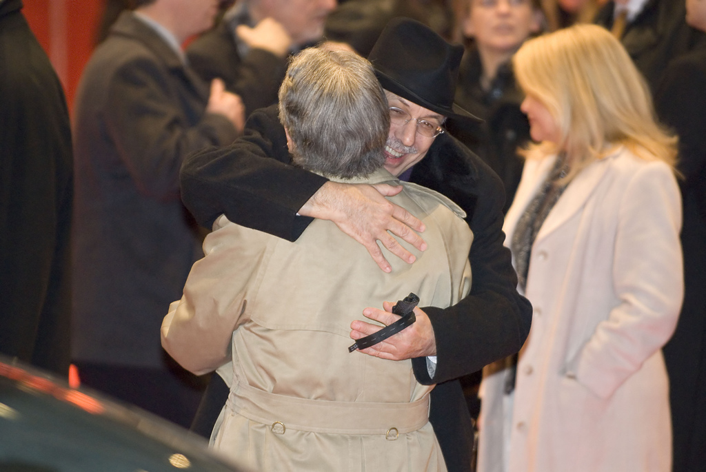 Dieter Kosslick cordially welcomes special guest Movie Director Arthur Penn Premiere of "The good shepherd", Berlinalepalast, Postdamer Platz, Marlene-Dietrich-Platz